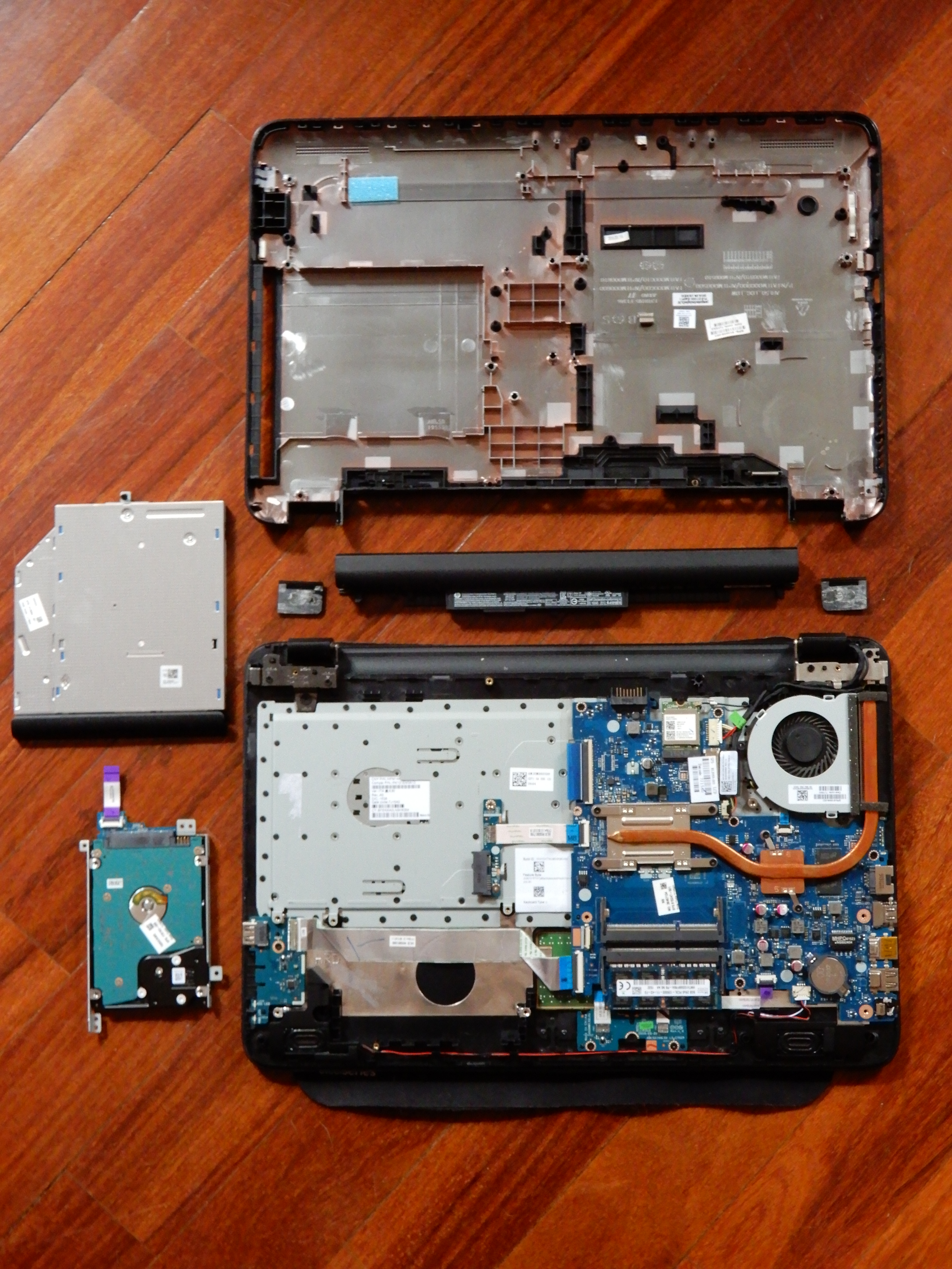 Disassembled laptop computer